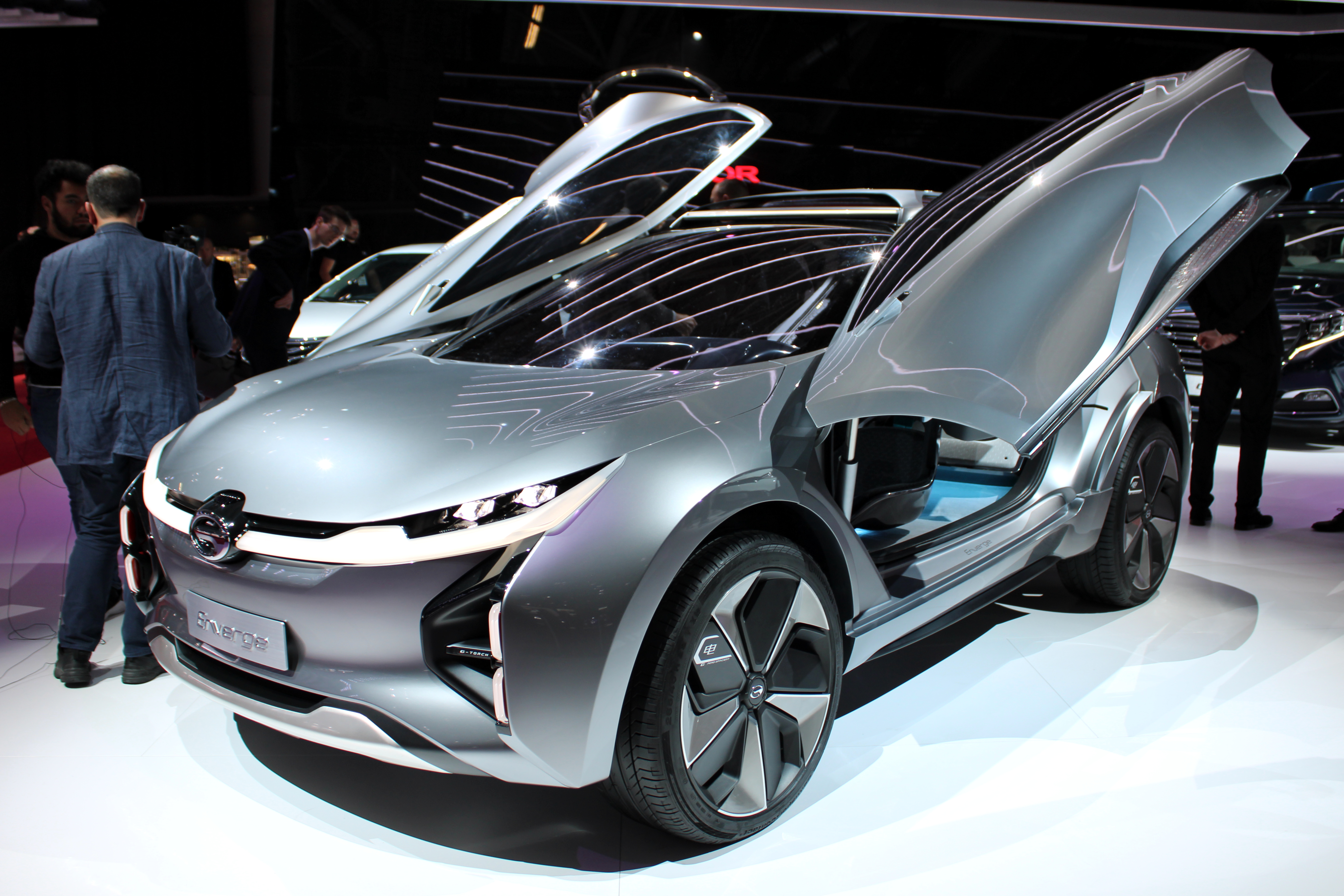 GAC Motor Enverge at Paris Motor Show 2018